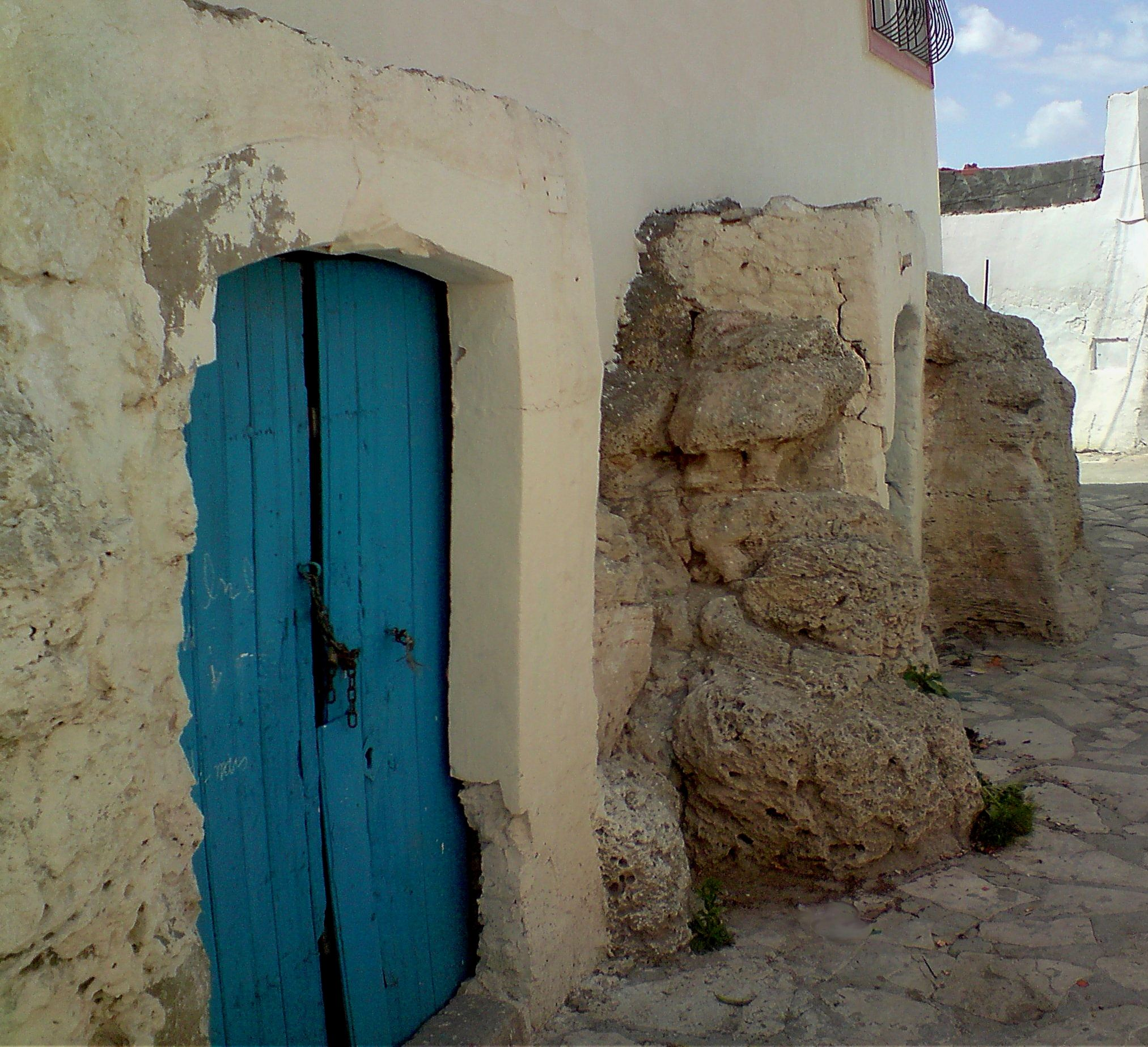 Antique habitation in Sayada